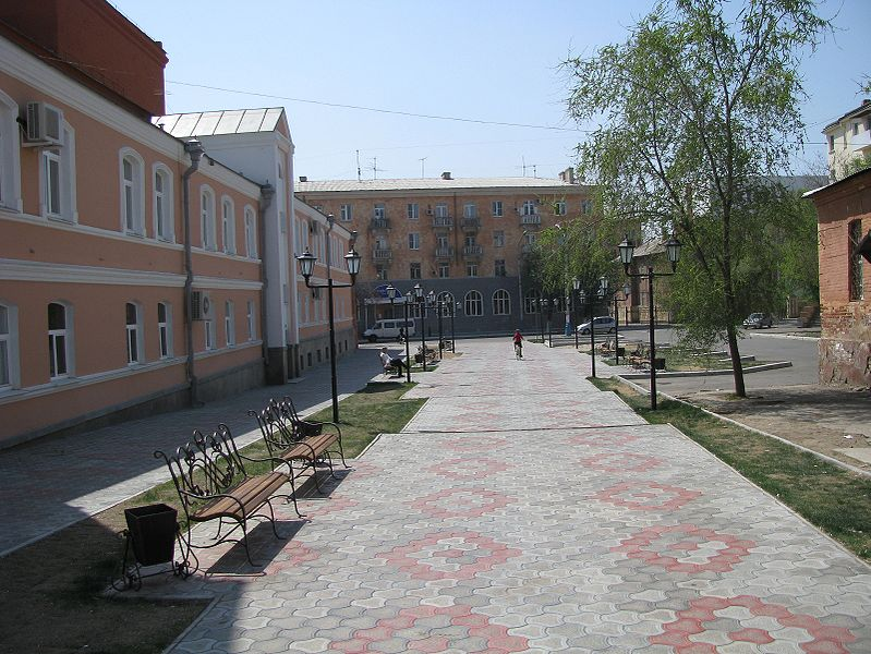 Astrakhan dramatic theatre from Shelgunov street